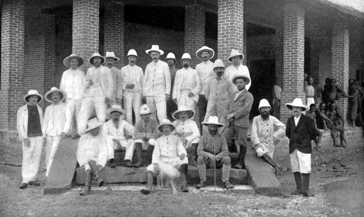 Europeans at Stanleyville, 1902 - p. 78